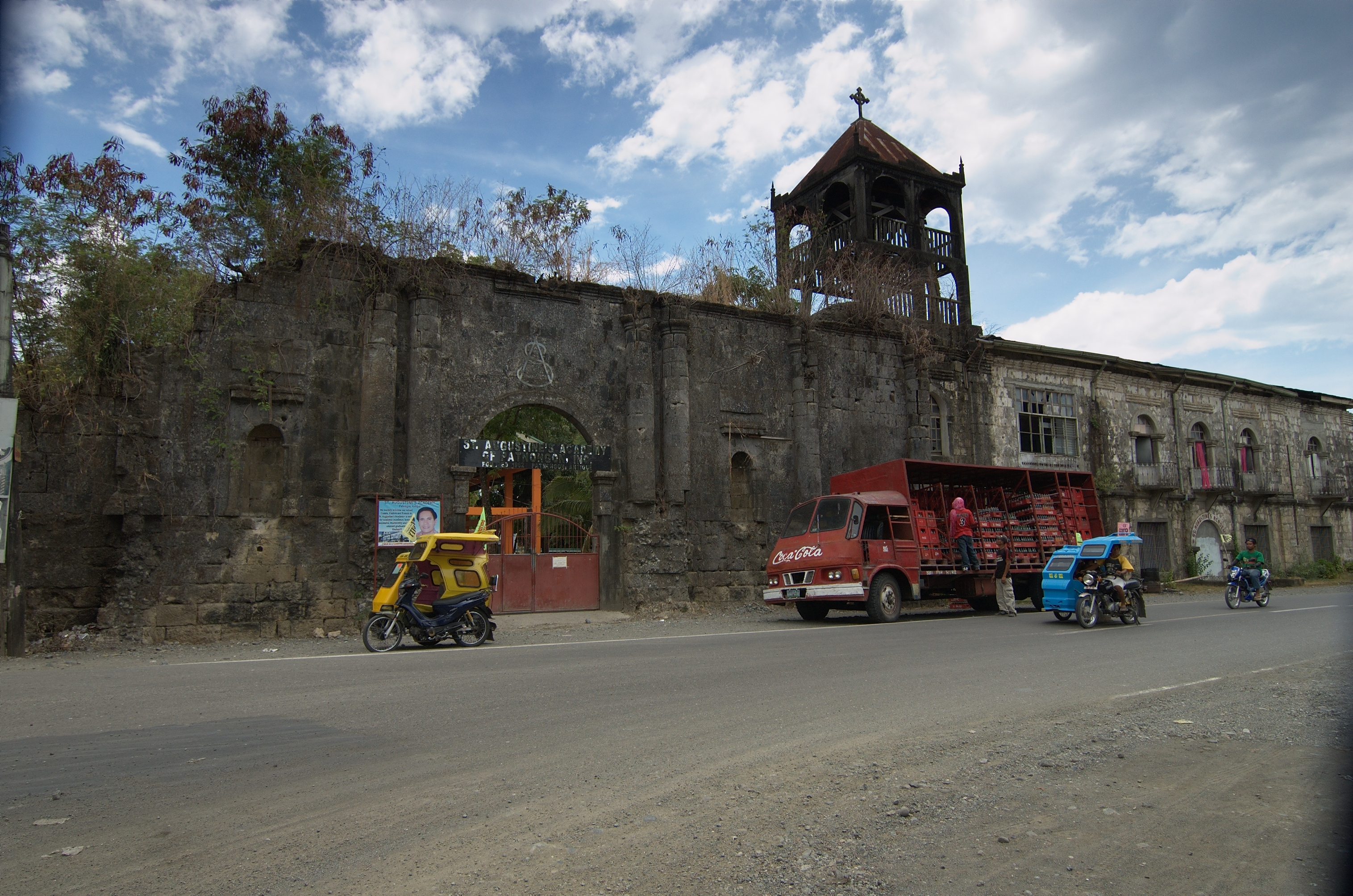 Patnongon Church (Ruins), Patnongon, Antique: One of three places where the Augustinians built a church and convento of stone and mortar, Patnongon has unfortunately lost its much of historic structures due to human agency. Fray Manuel Asensio, appointed parish priest in 1860, commenced construction of the church. The succeeding pastors, Sabas Fontecha (1872-89), Wenceslao Romero (1889) and Eustaquio Hera (1895) continued work on the complex and completed it. Fray Joaquín Fernández designed and landscaped the church plaza in 1896. Unfortunately, two yeas later the church was partially destroyed by revolucionarios. Although the Mill Hill fathers repaired the convento, restoring its neoclassic lines, they demolished the remaining walls of the church, except for part of the façade, to make way for a school. The existing historic remains at Patnongon and old pictures of the church show that both church and convento belonged to the neoclassical idiom. The characteristics of both are shallow engaged pilasters, flat walls, pierced by arched windows. The pilasters do not have proper capitals; in their place are horizontal bars of masonry. The church represents a late colonial style characterized by greater simplicity and economy of ornamentation. (Panublion) text from